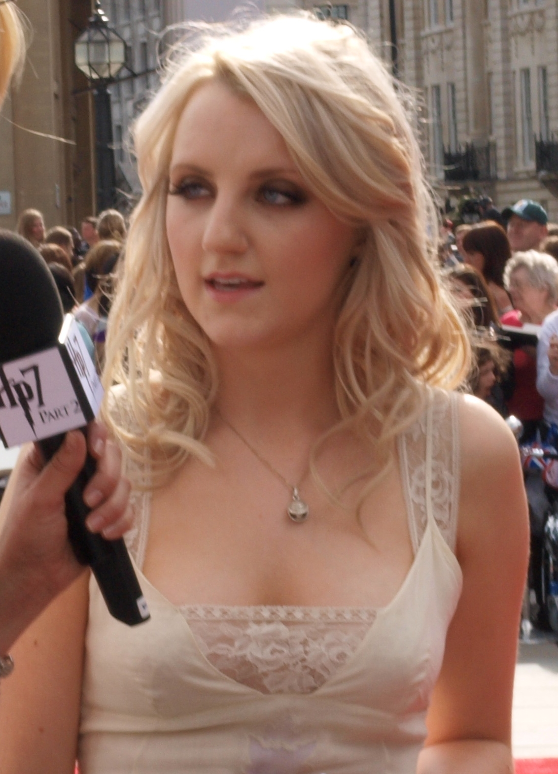 Taken from the stands at the premiere of Harry Potter and the Death Hallows Part 2, of Evanna Lynch giving an interview